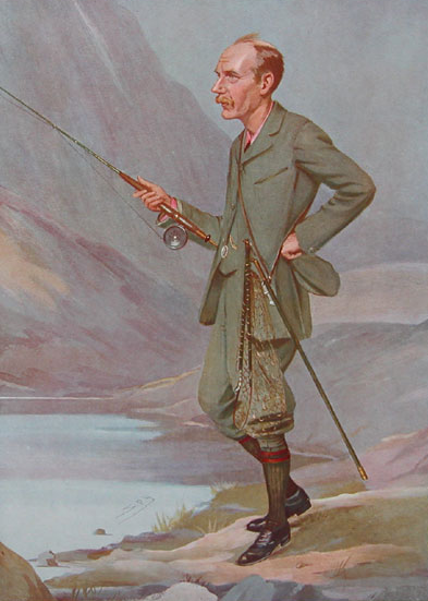 Caricature of Sydney Buxton, 1st Earl Buxton, published in Vanity Fair, 2 January 1907. Caption reads "The Post-Master General".